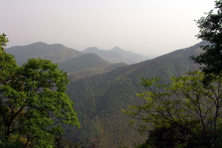 Moganshan View from Park Observation Deck